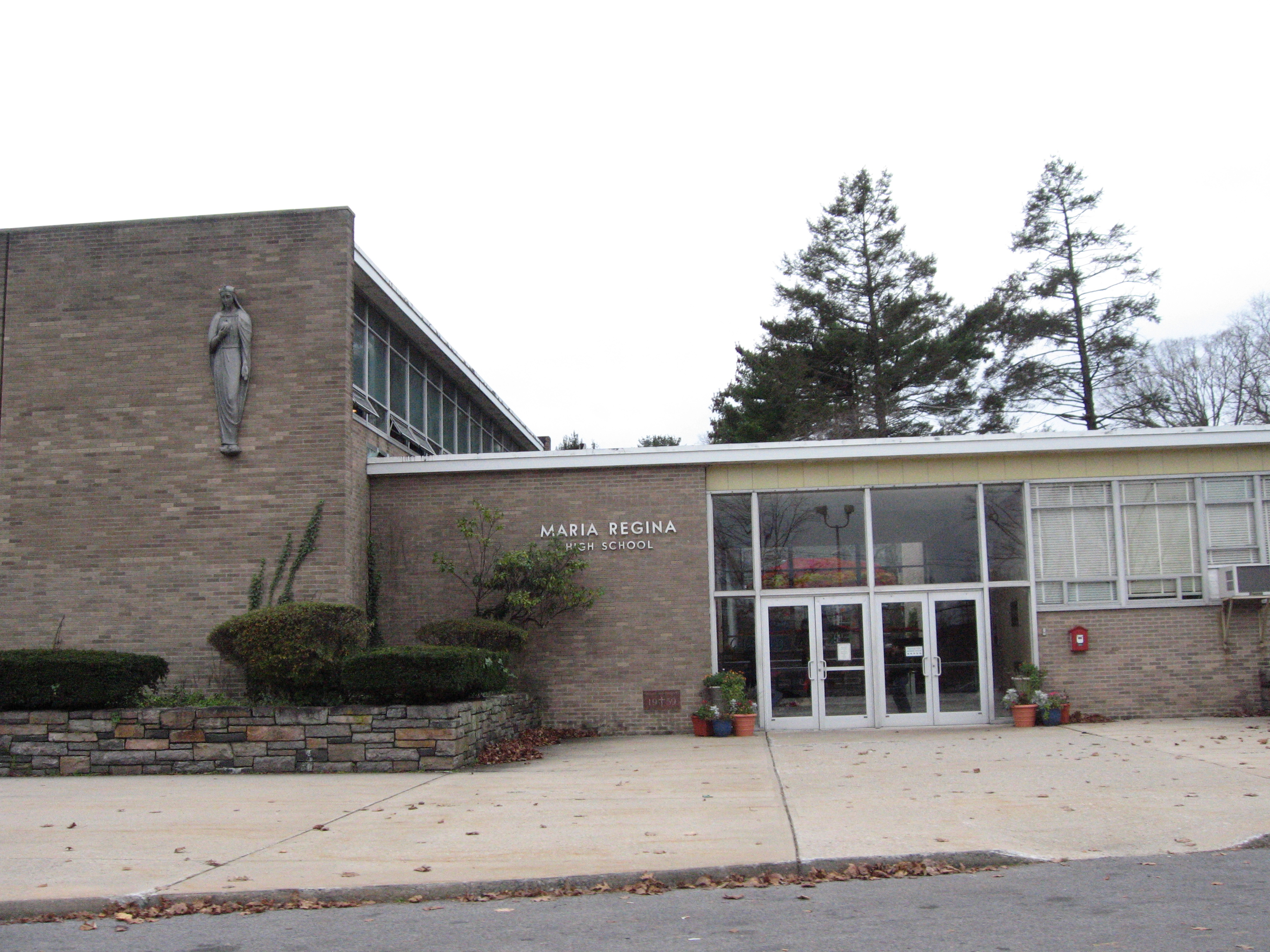 Maria Regina High School